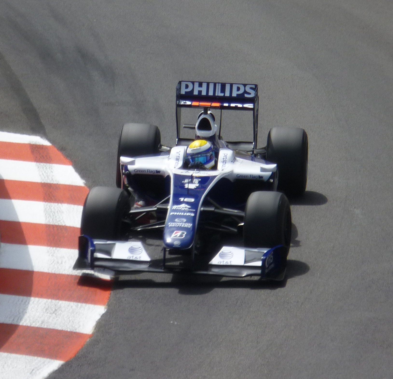 Nico Rosberg driving for WilliamsF1 at the 2009 Monaco Grand Prix.